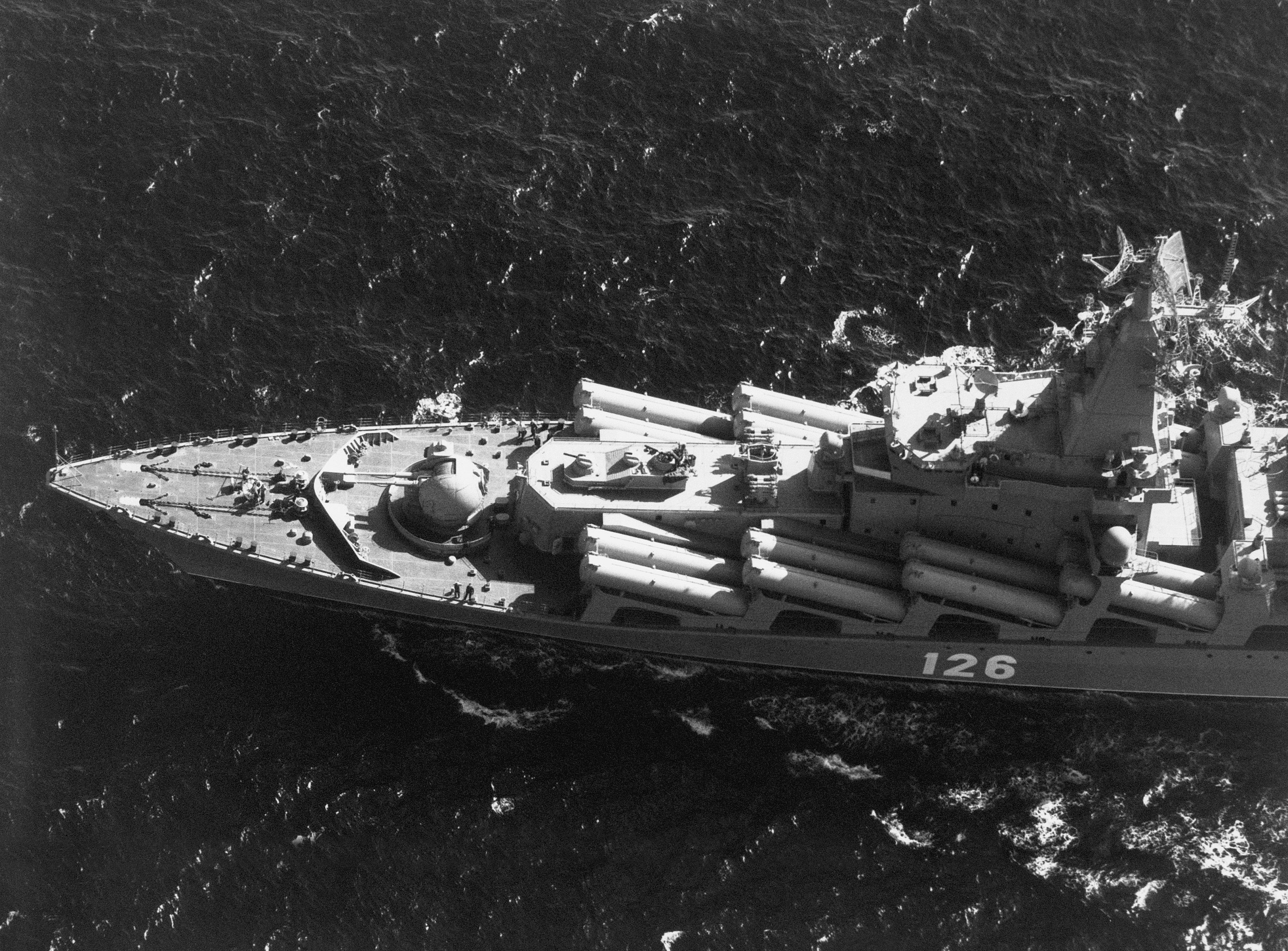 An aerial starboard view of the bow section of a Soviet Slava class guided missile cruiser showing 16 SS-N-12 missiles, a twin 130 mm dual purpose gun, and two 30 mm gatling guns.